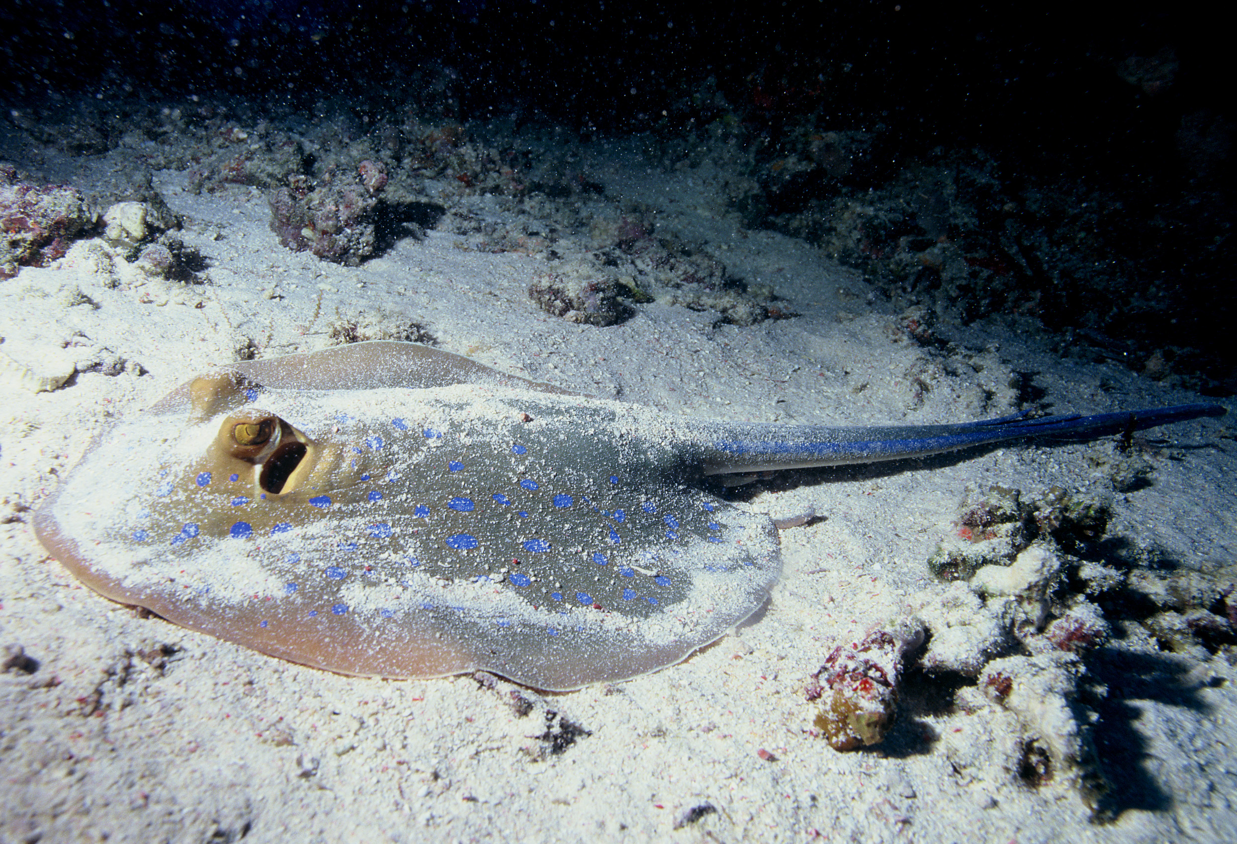 An example for the family of stingrays.